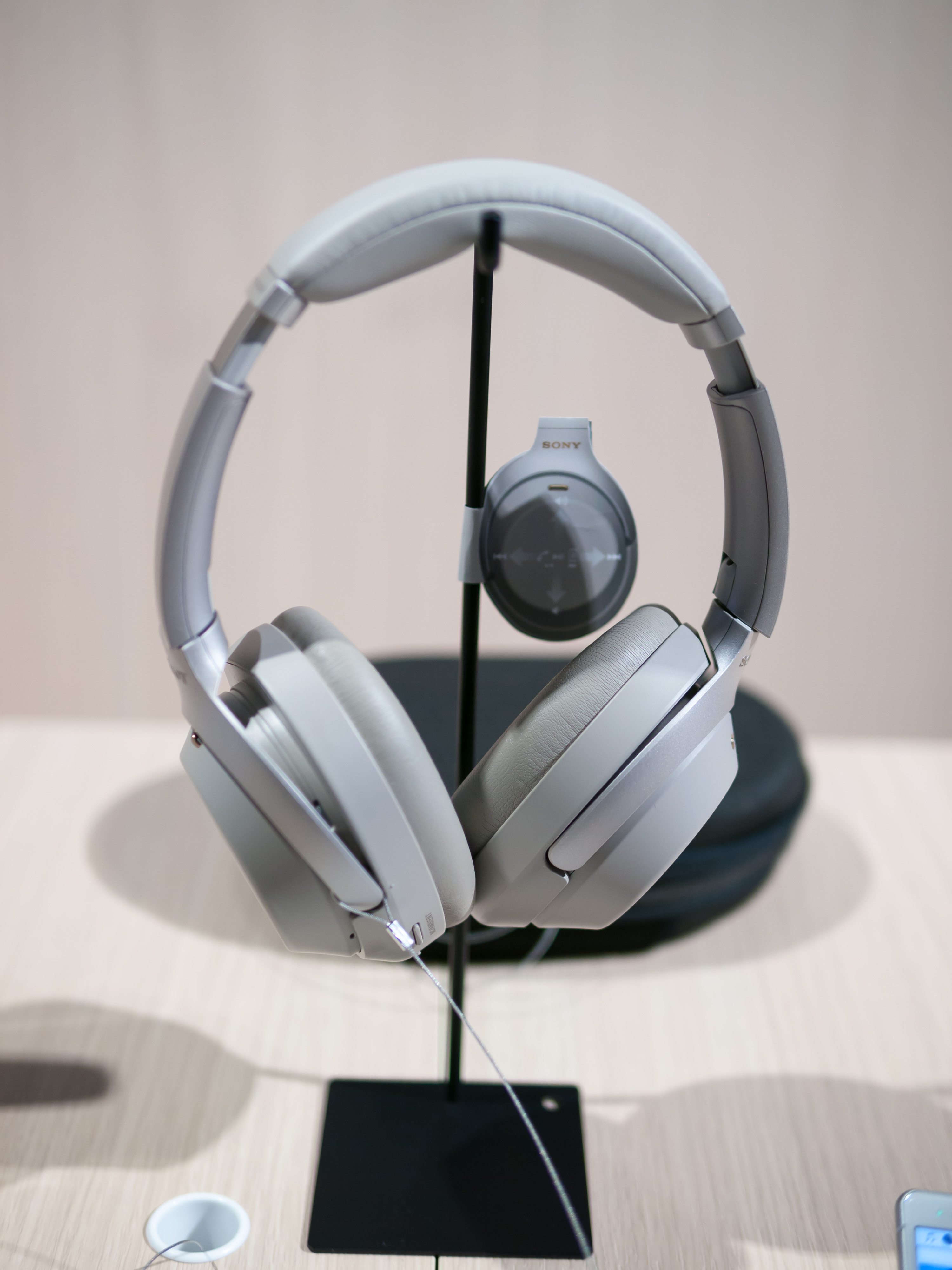 Sony WH-1000XM3, Internationale Funkausstellung 2018, Berlin